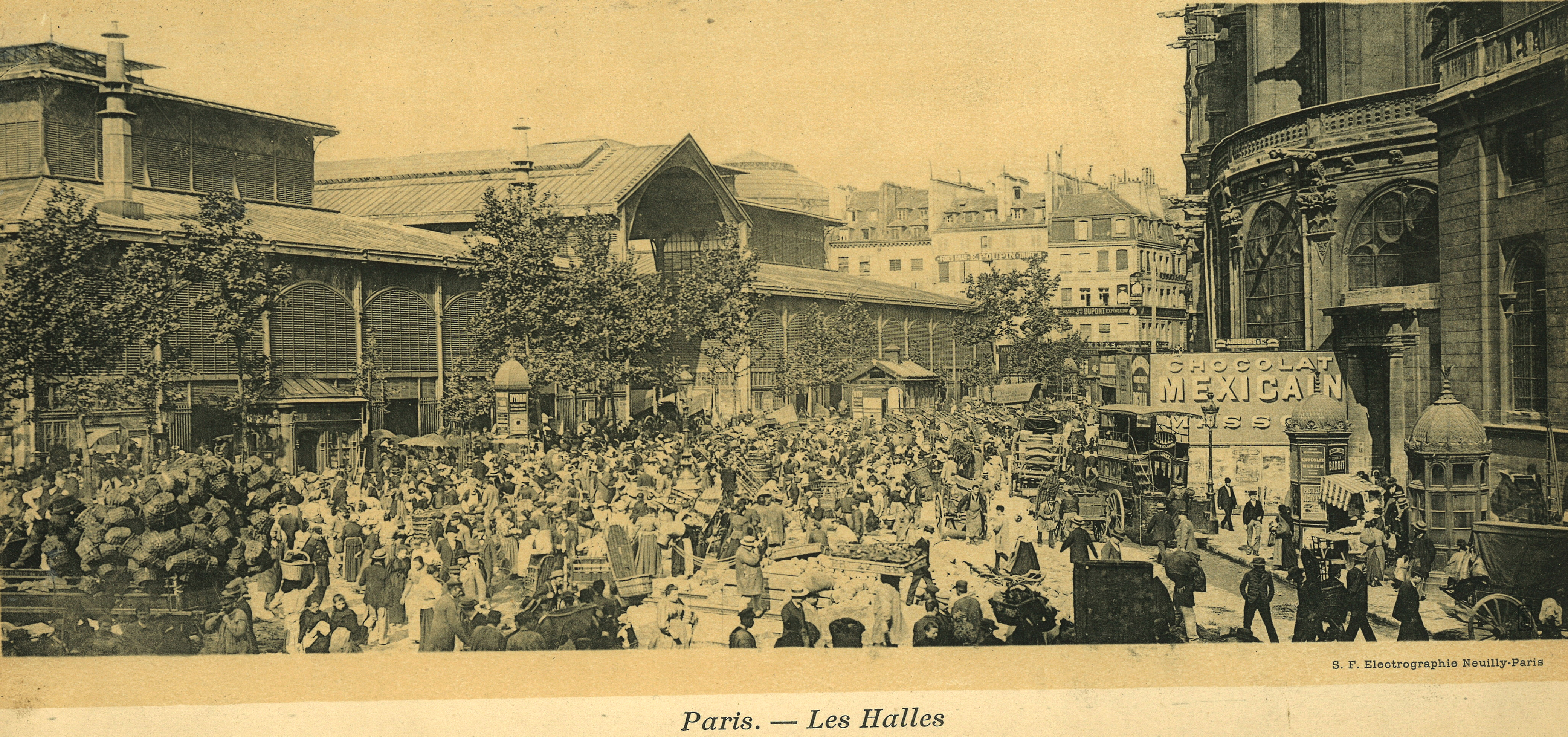 Turn of the century photo of Paris marketplace